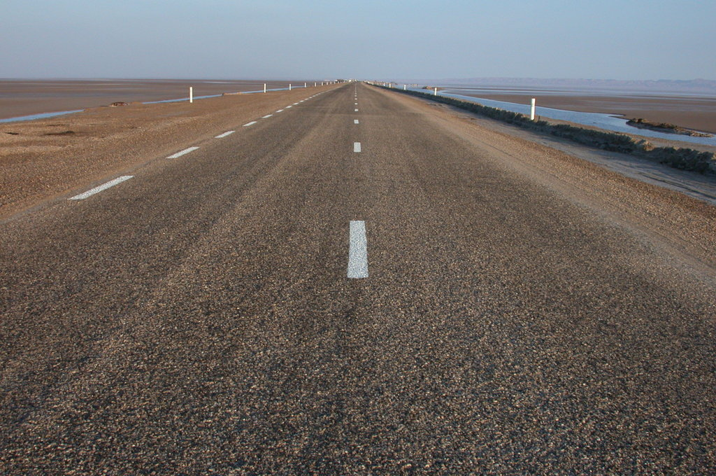 The road connecting Tozeur and Douz crossing the Chott el-Jerid lake in Tunisia